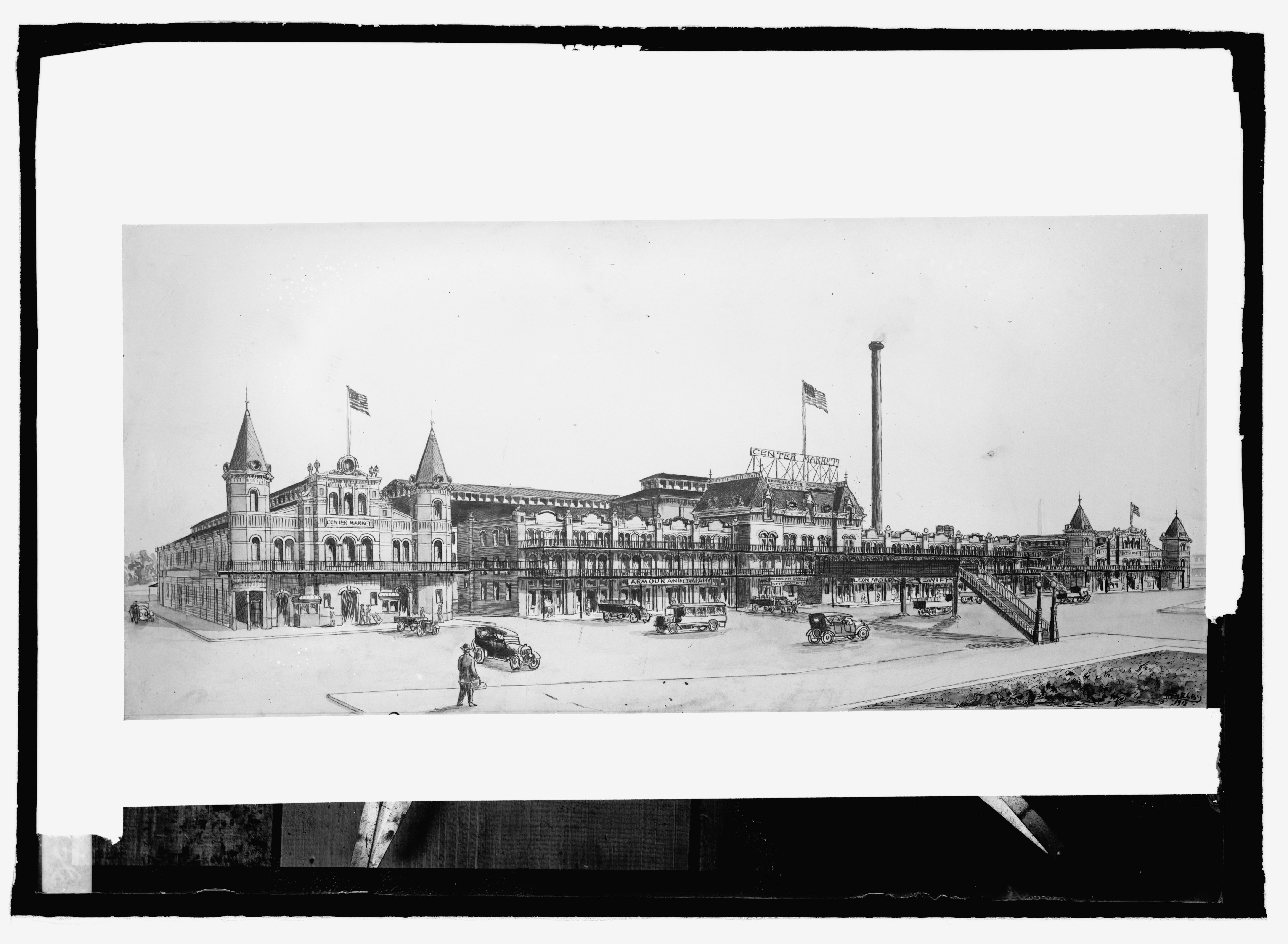 Title: Center market Abstract/medium: 1 negative : glass ; 5 x 7 in. or smaller